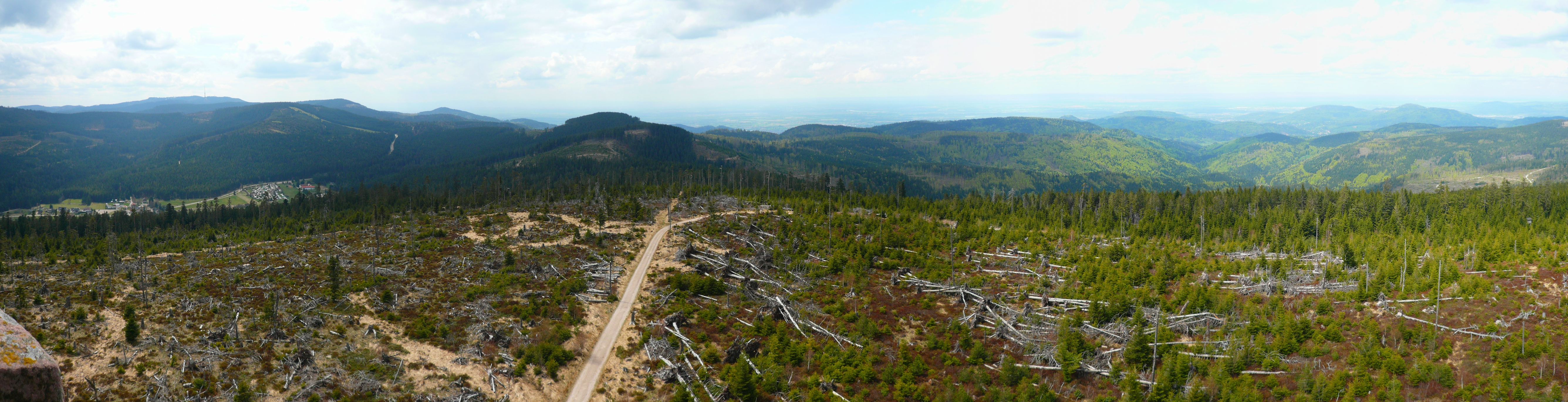 View from tower on Badener Hoehe, Black Forest